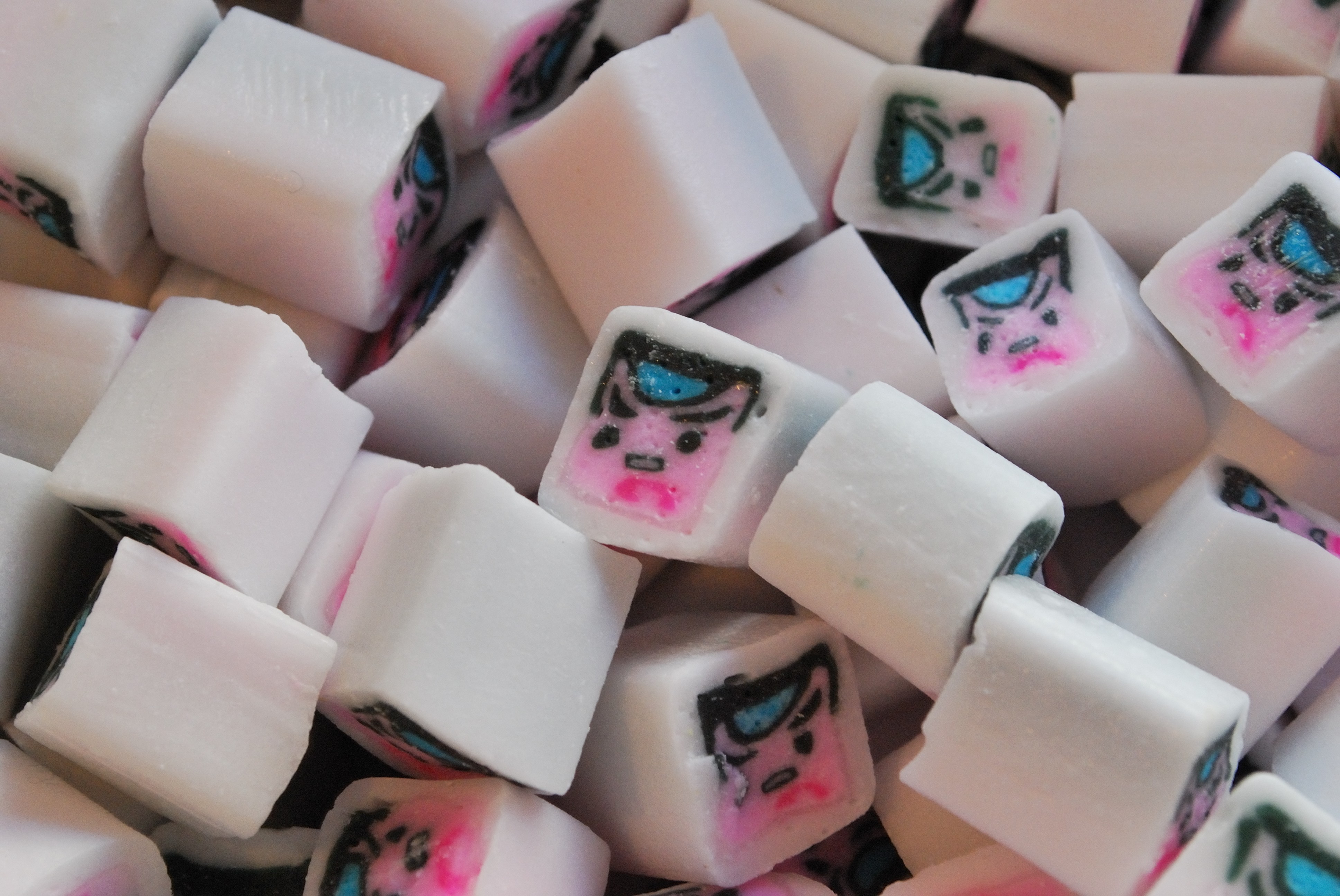 Kintaro ame